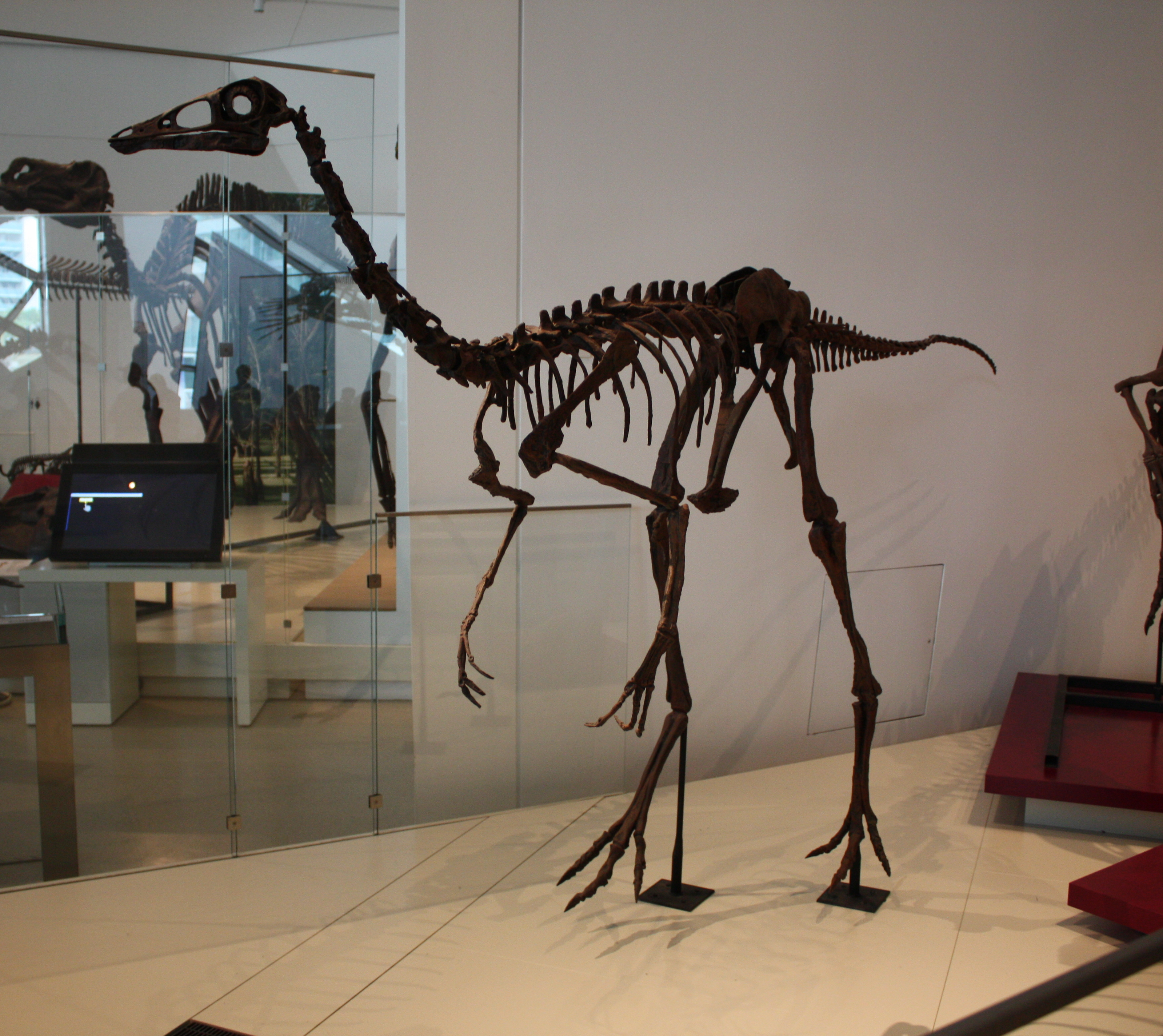 Ornithomimus edmontonicus skeleton, Royal Ontario Museum